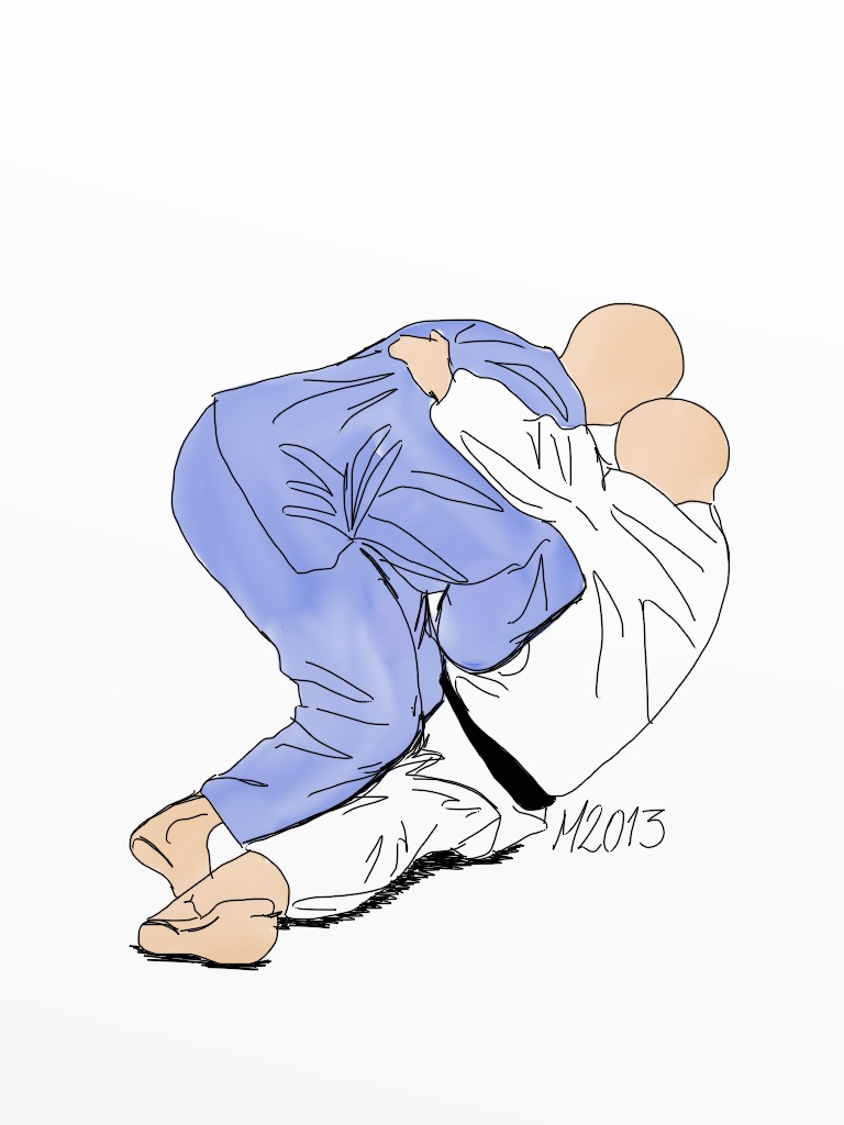 Illustration of the judo throw yoko-otoshi, or side-sacrifice.